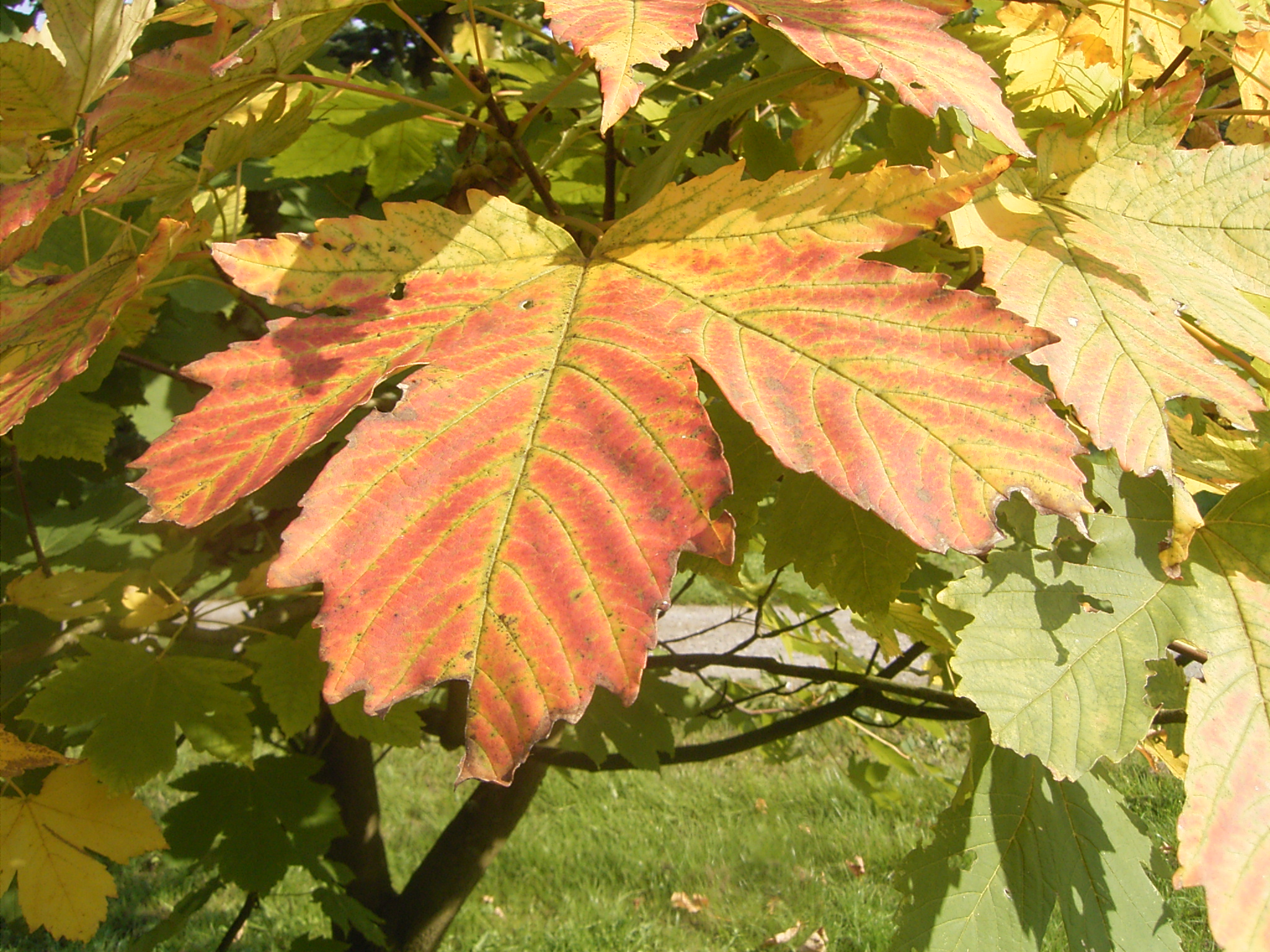 This photo shows Acer heidrechii